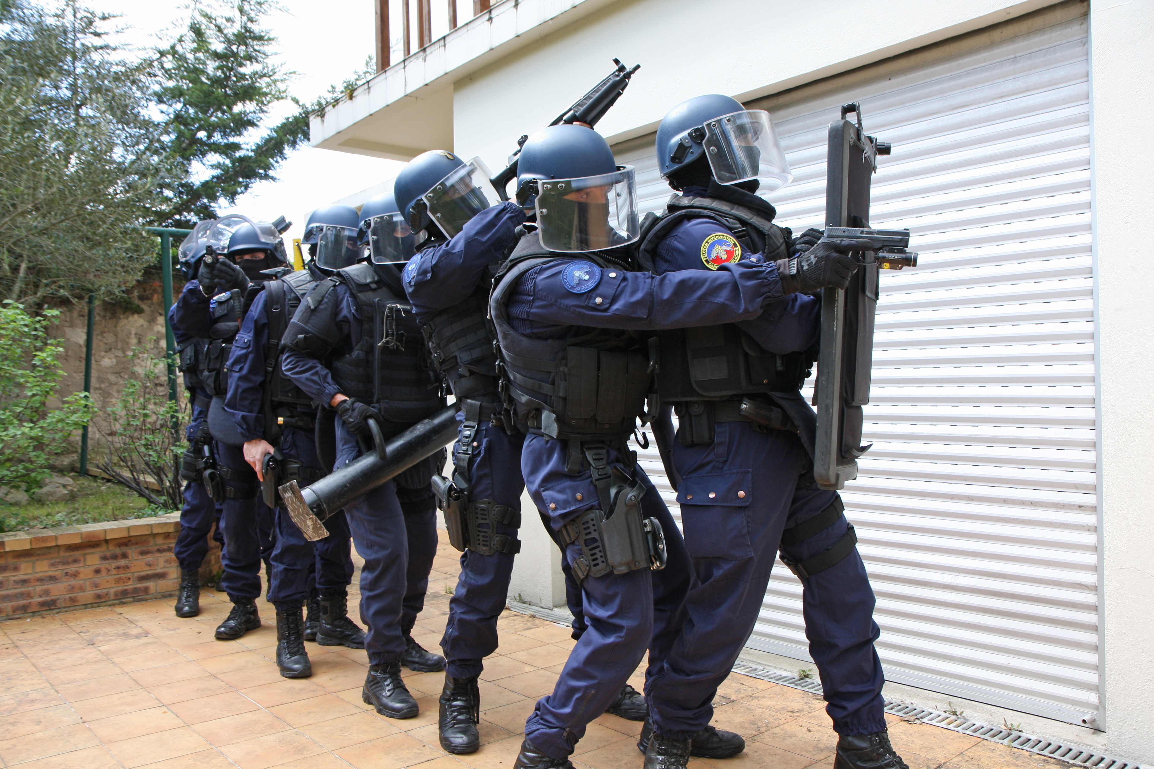 French Garde républicaine PIGR (SWAT) team practice